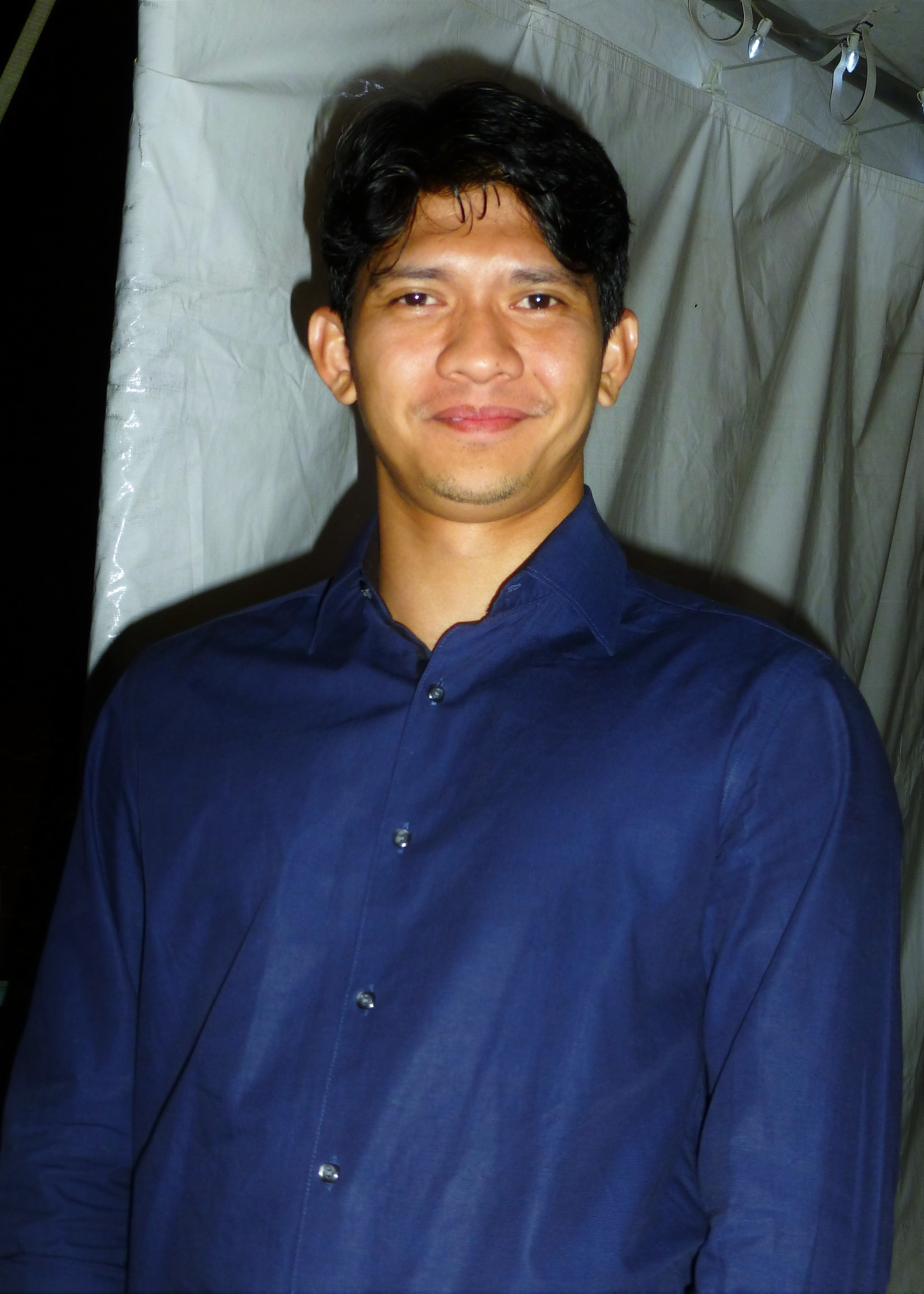 Iko Uwais at the premiere of Headshot, 2016 Toronto Film Festival